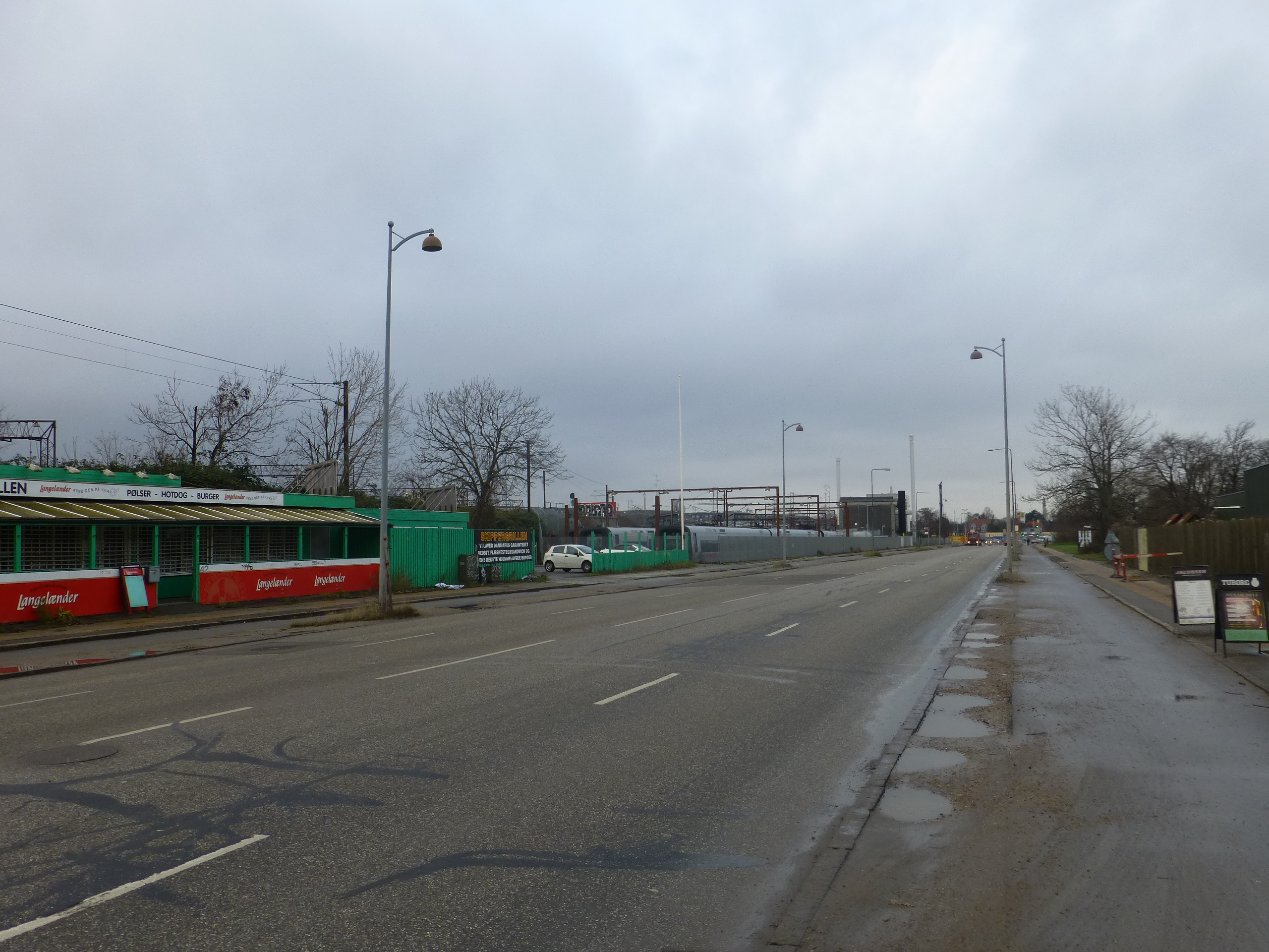 The street Strandvænget in Østerbro in Copenhagen.